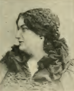 Mme Hugues (Clovis, née Jeanne Royannez) after Stebbing (cliché).